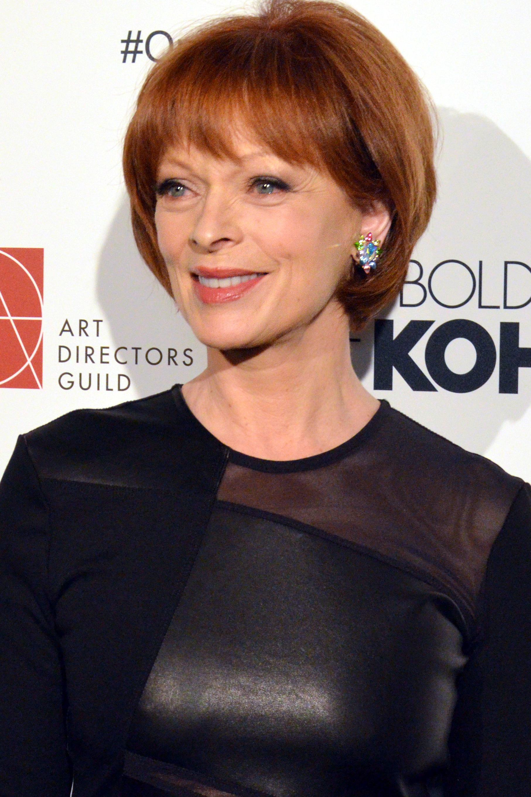 Francis Fisher by